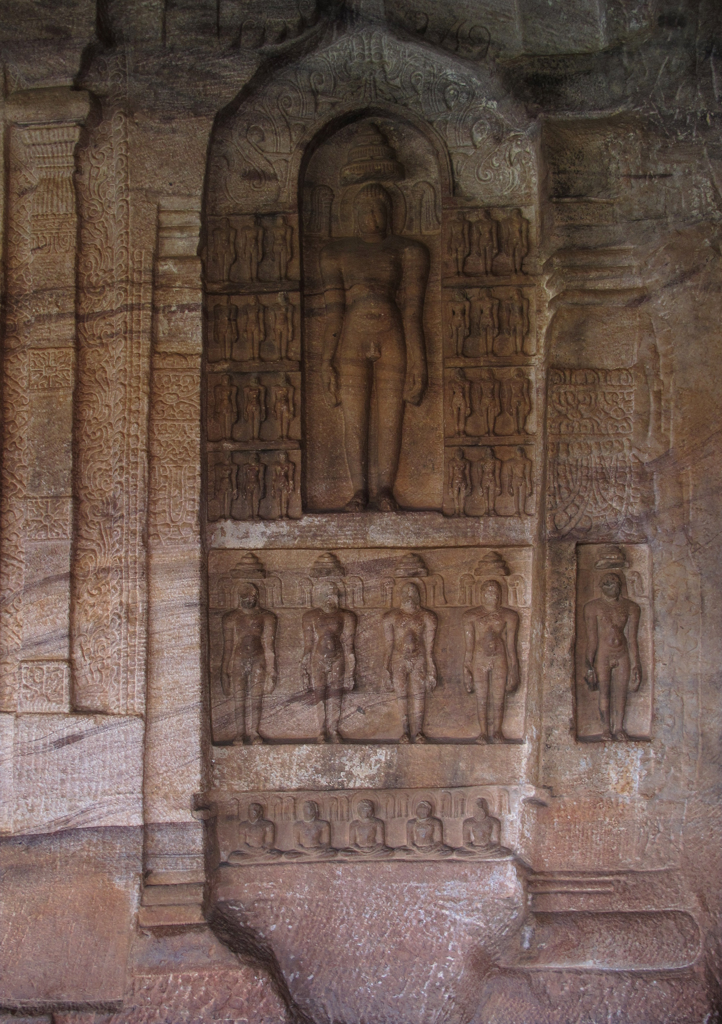 Tîrthankara jaina Adinatha. Cave 4. Badami